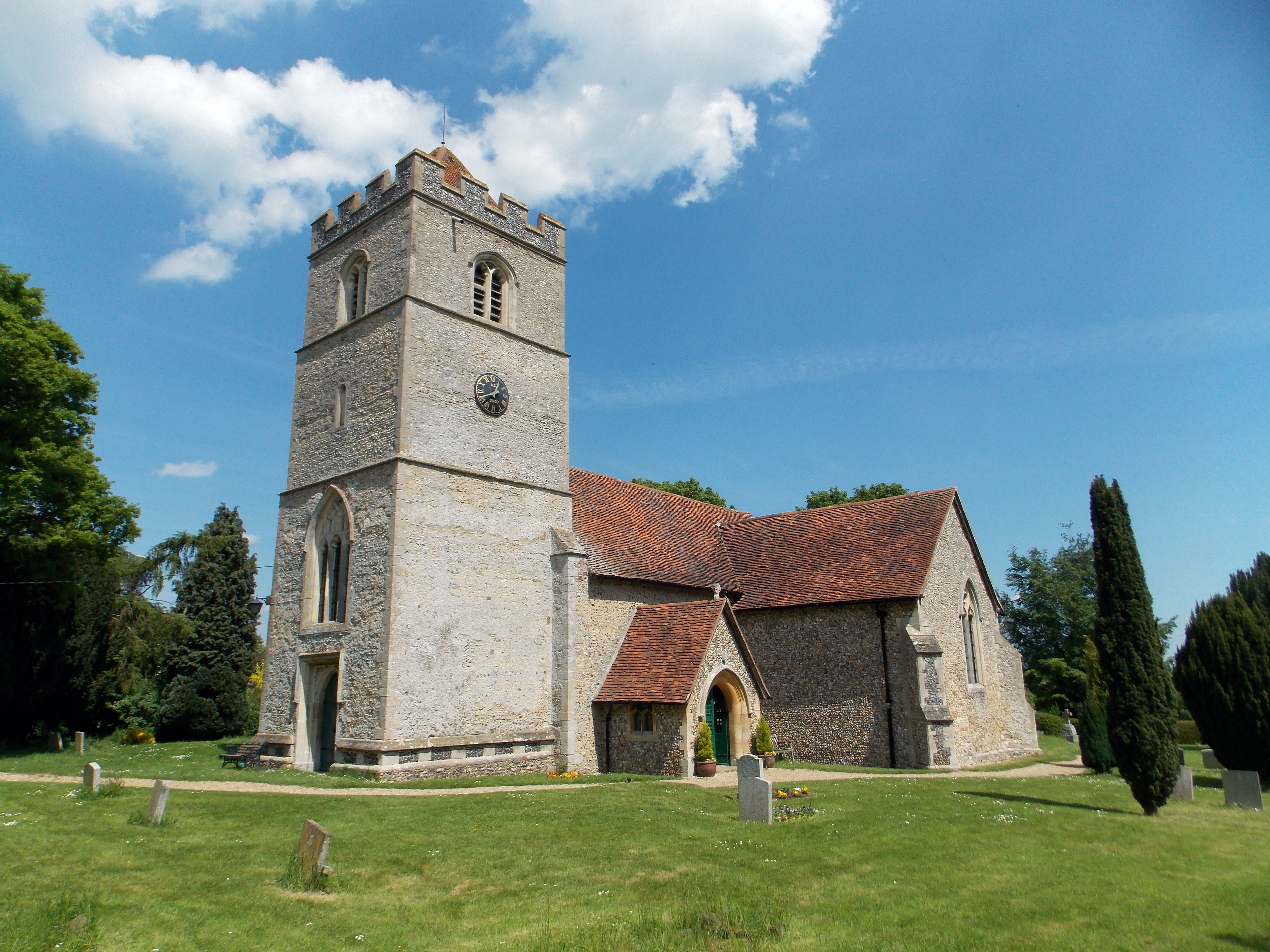 Berden St Nicholas exterior from the south west